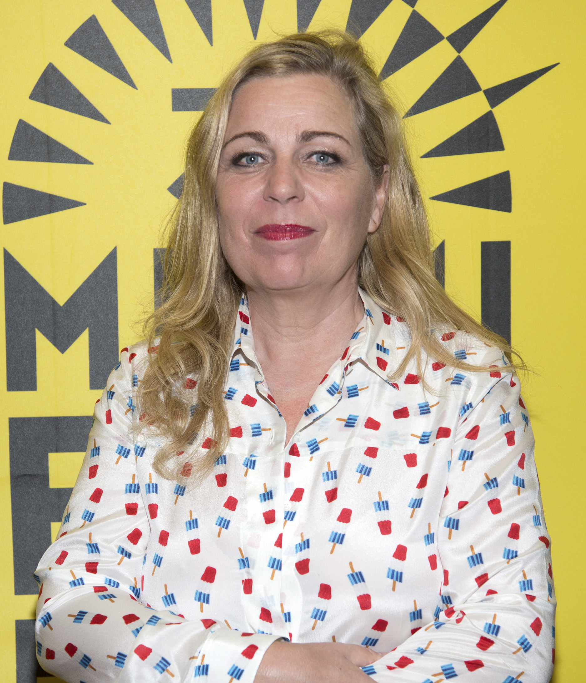 Film: Their Finest with the director Lone Scherfig in conversation at O Cinema Miami Beach during Miami Film Festival on March 5, 2017